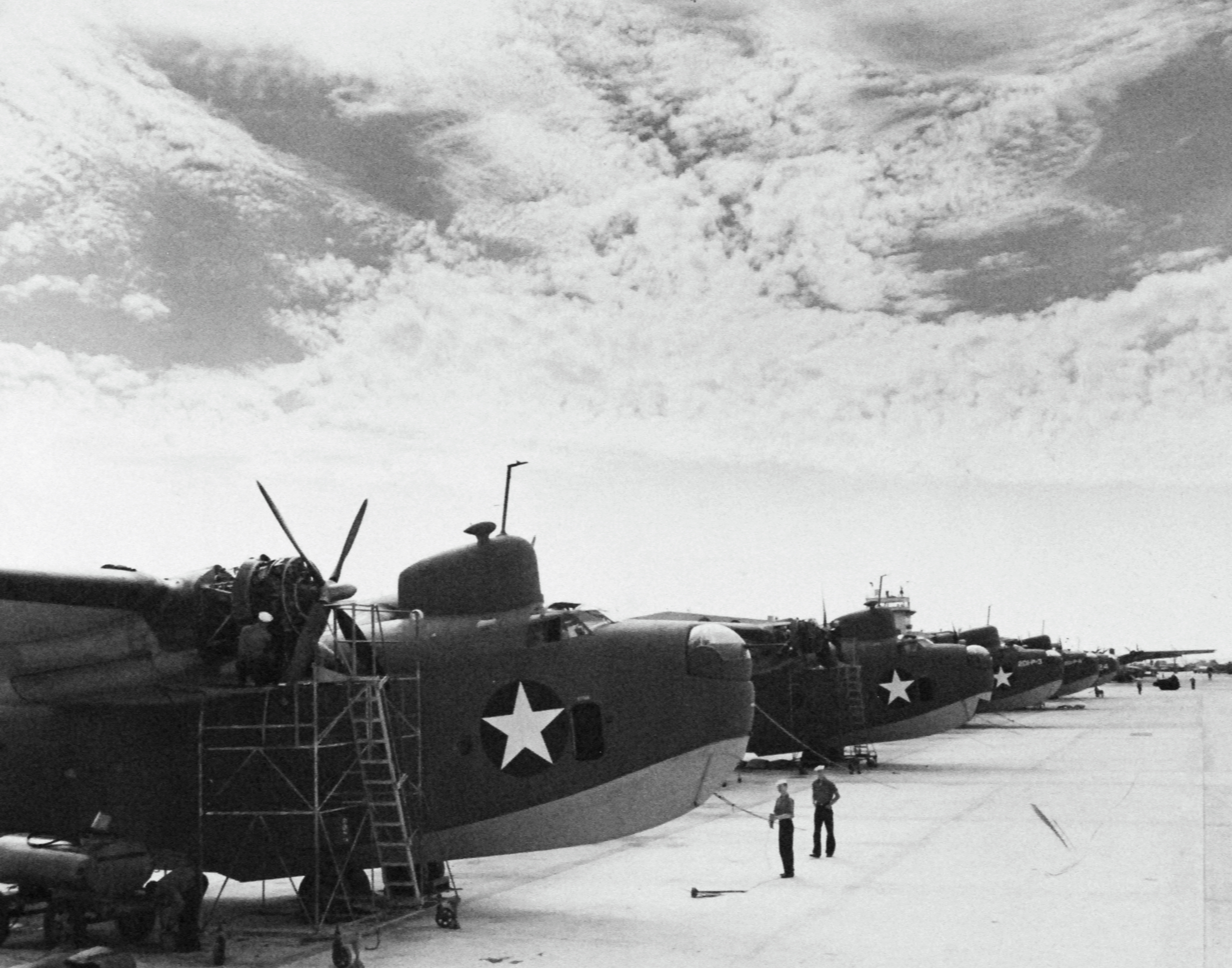 U.S. Navy Martin PBM-3C Mariners of Patrol Squadron 201 (VP-201) at Naval Air Station Banana River, Florida (USA), on 13 January 1943.